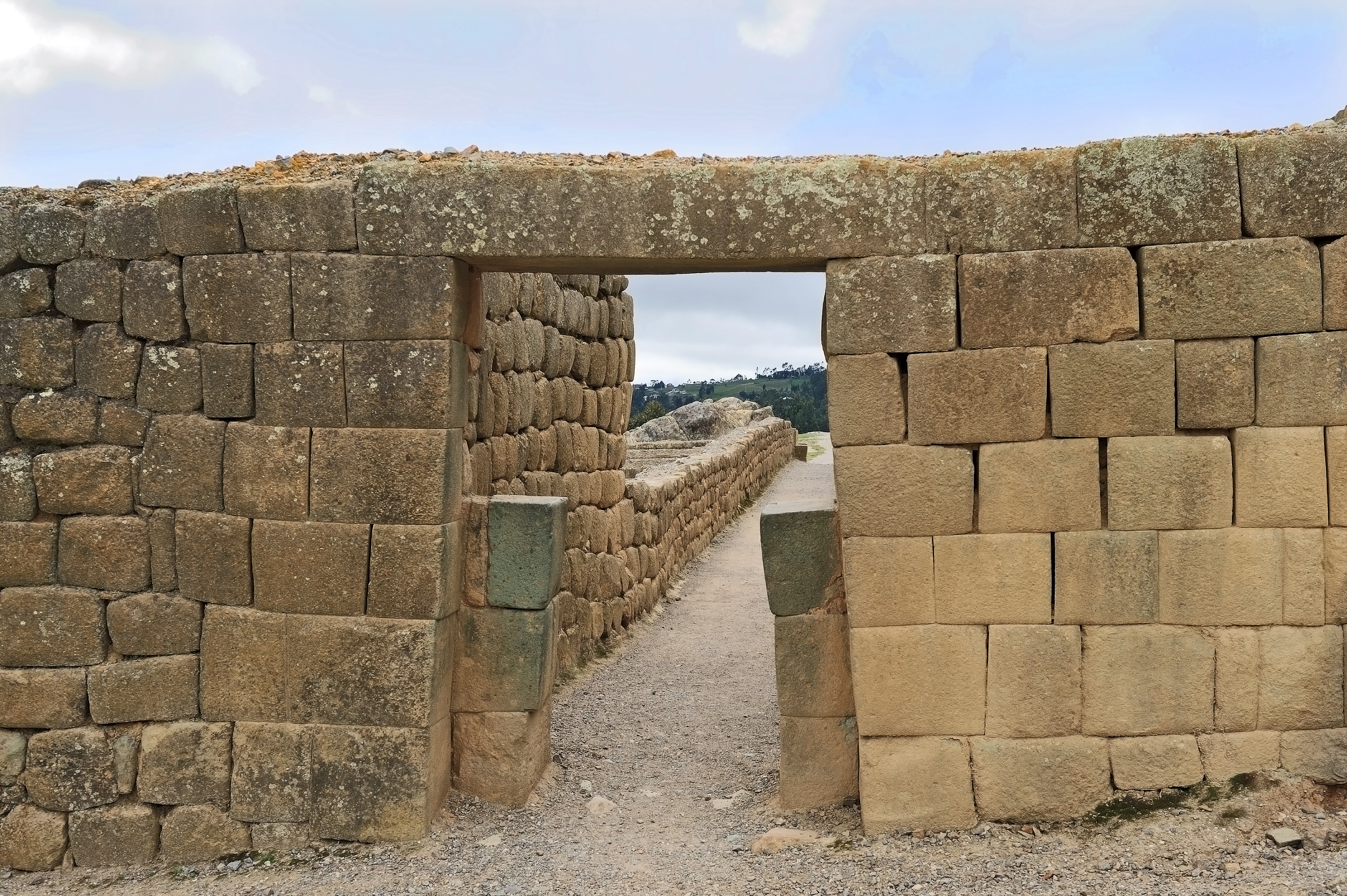 Ingapirca, Ecuador: Typical trapezoidal Incan entrance structure.